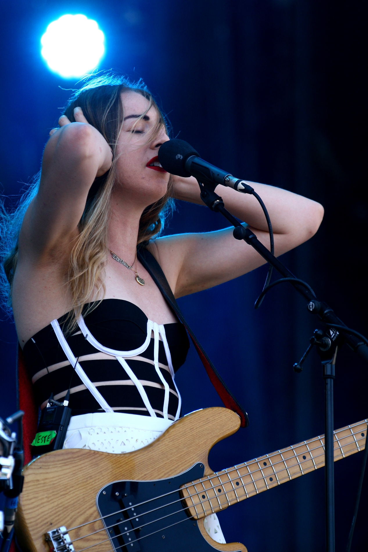 Este Haim, bass guitarist of Haim, Rock im Park Festival 2014. Festivalsommer This photo was created with the support of donations to Wikimedia Deutschland in the context of the CPB project "Festival Summer".